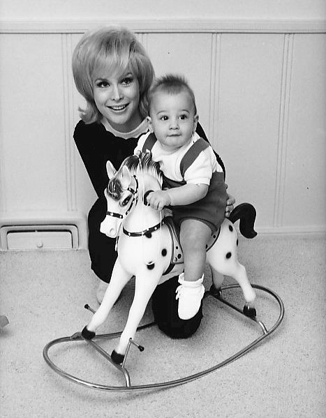 Photo of Barbara Eden and son Matthew Ansara in 1966. Matthew's father is actor Michael Ansara.